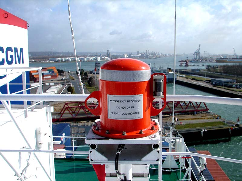 A Voyage Data Recorder (VDR), the "black box" of a ship, on the container ship SMA CGM Nabucco